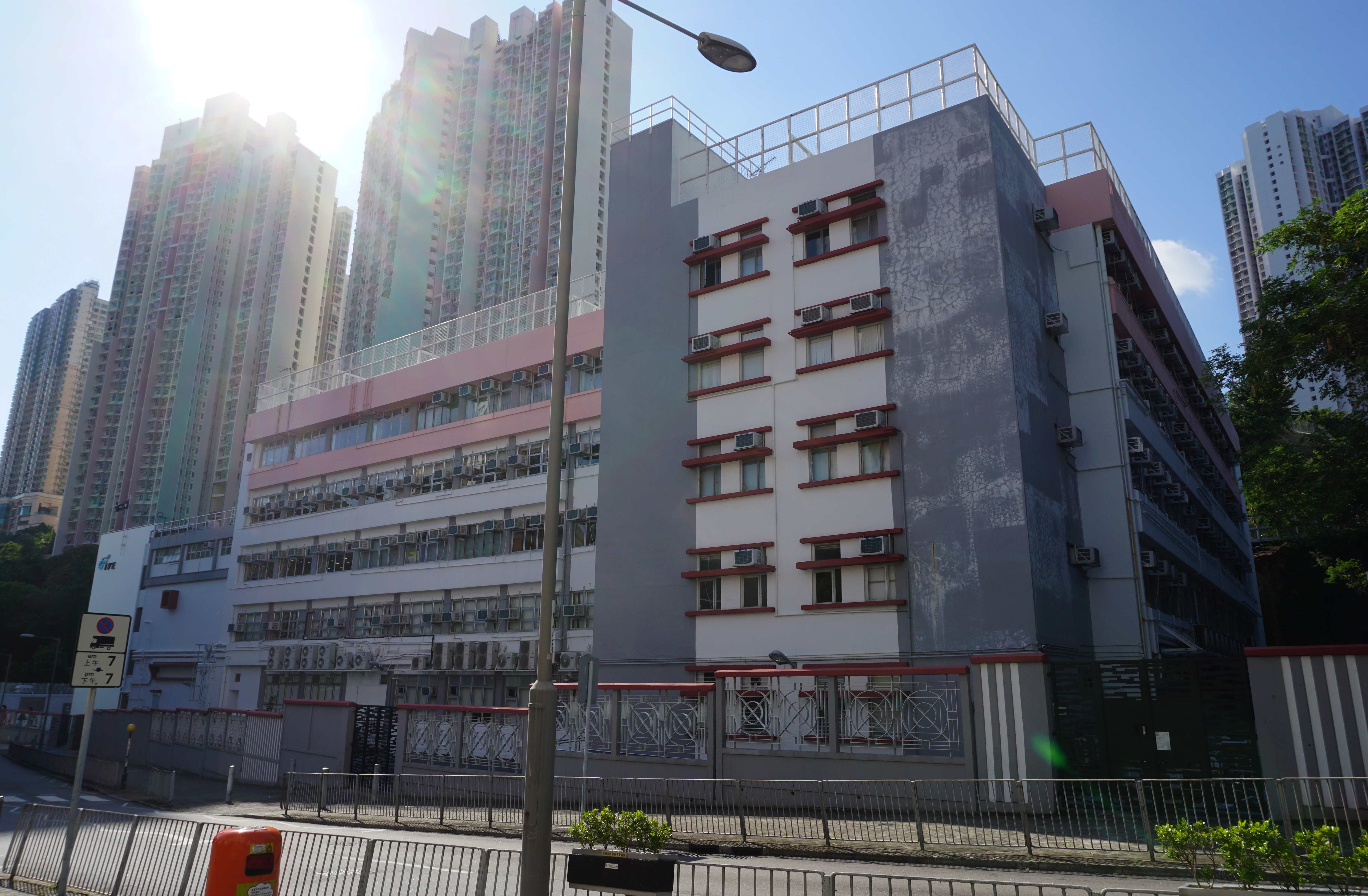 Institute of Vocational Education (Kwai Chung) in Kwai Fong, Hong Kong.